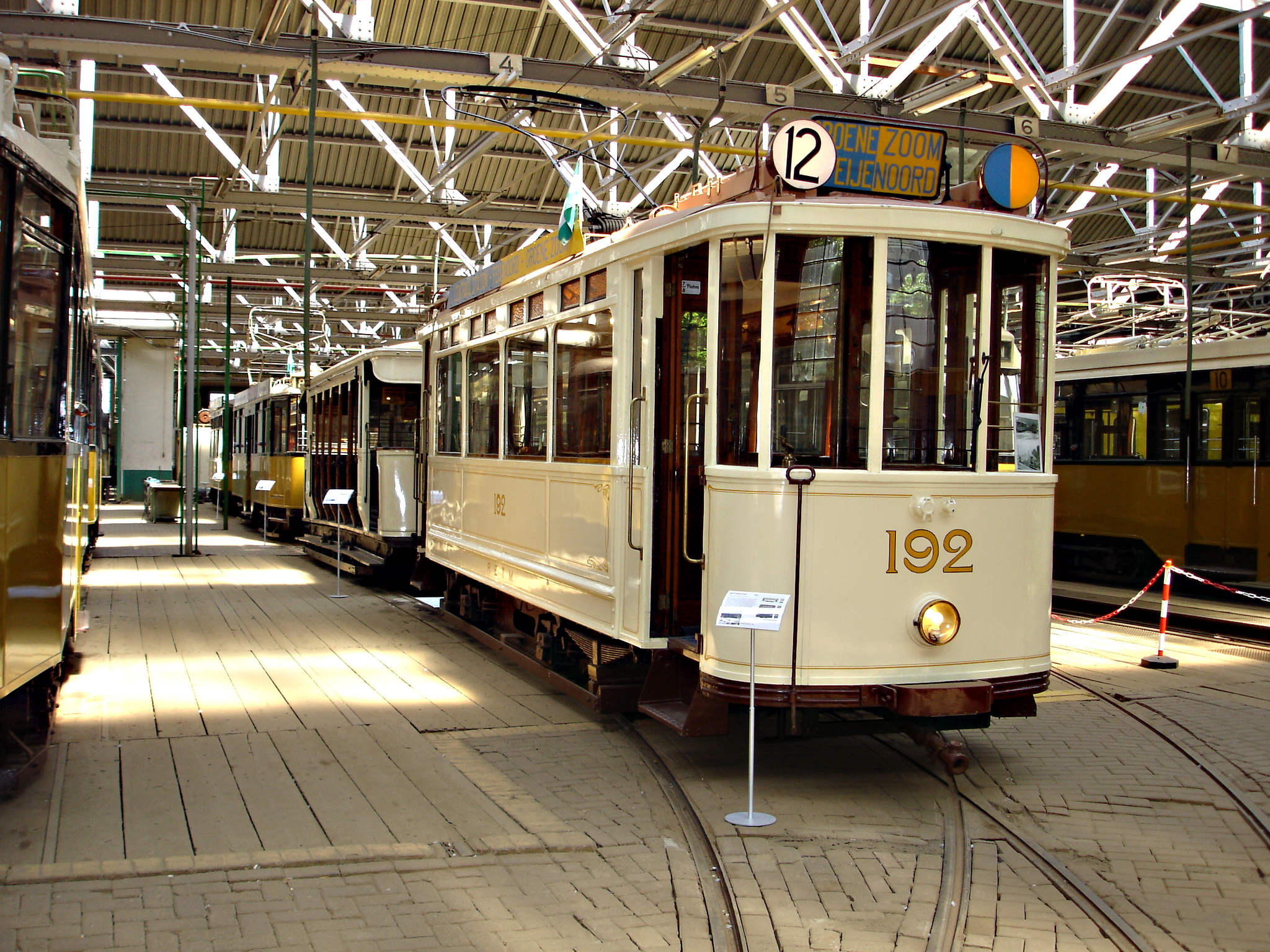 Tram 192 Trammuseum Rotterdam